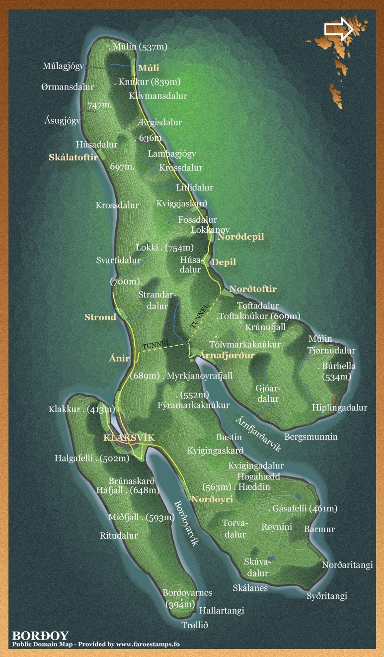 Borðoy, Faroe Islands